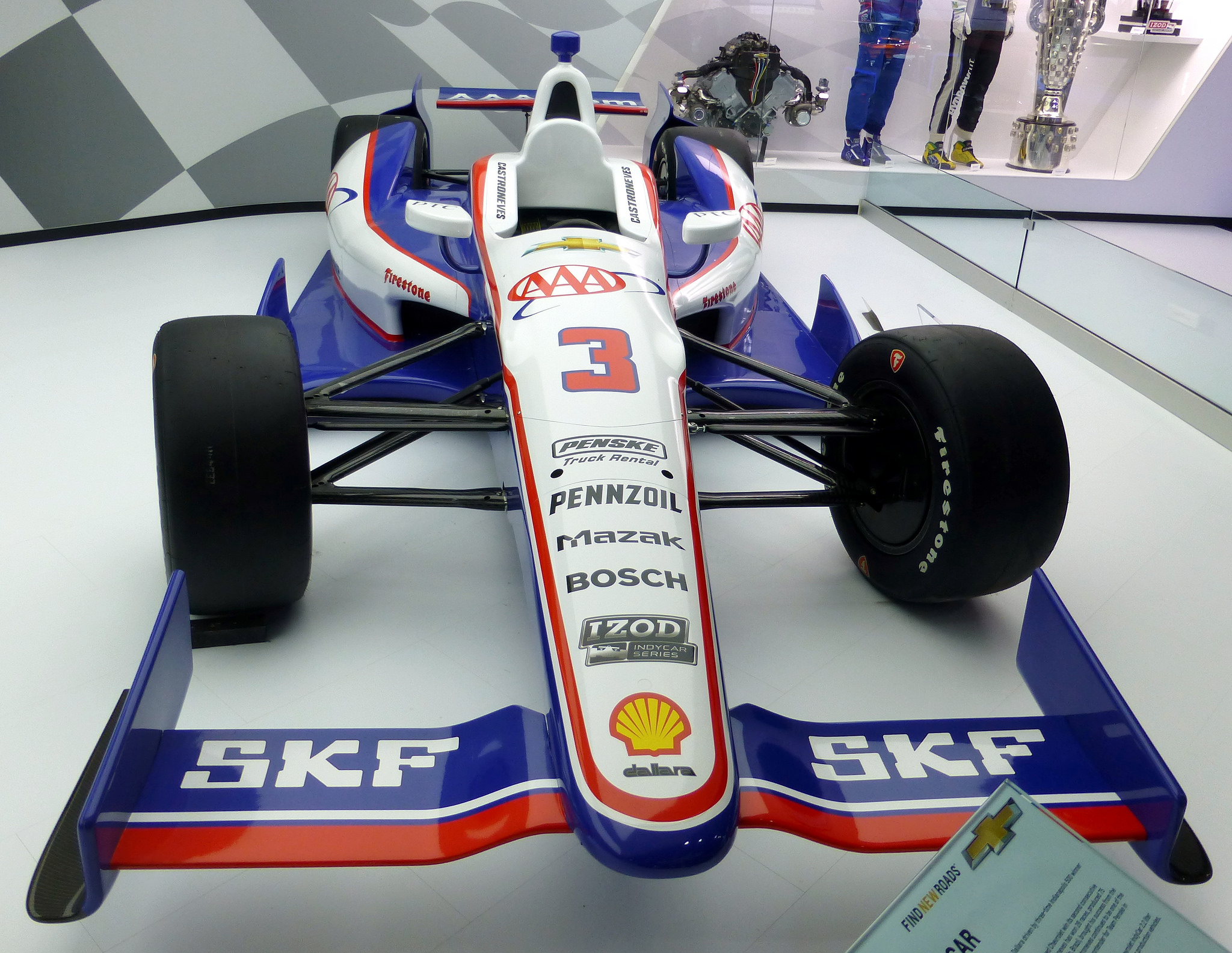 Helio Castroneves' Dallara DW12 during rhe 2014 North American International Auto Show at Detroit, Michigan.